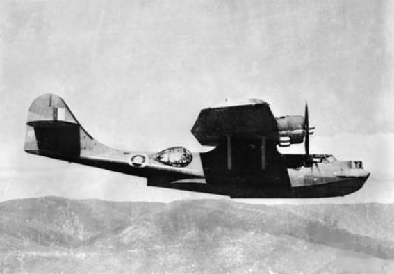 Australia. RAAF Consolidated Catalina aircraft (A24-11) in flight. (Donor C. A. Lynch).